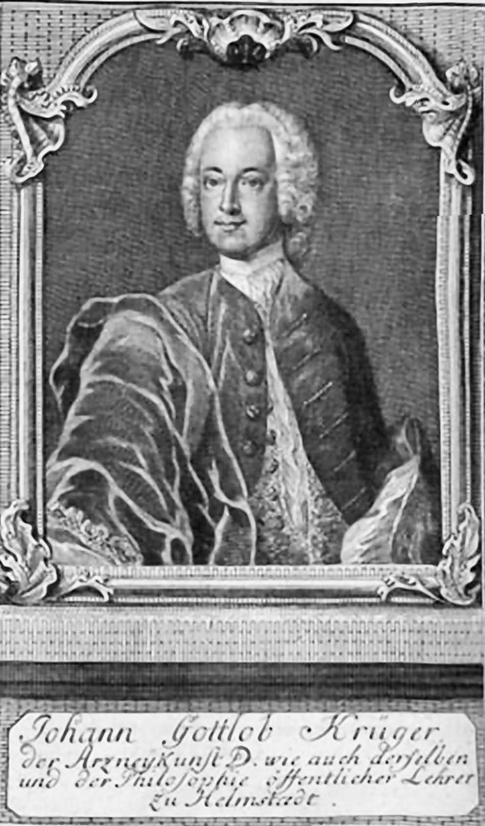 Johann Gottlob Krüger (1715-1759) Physician from Germany